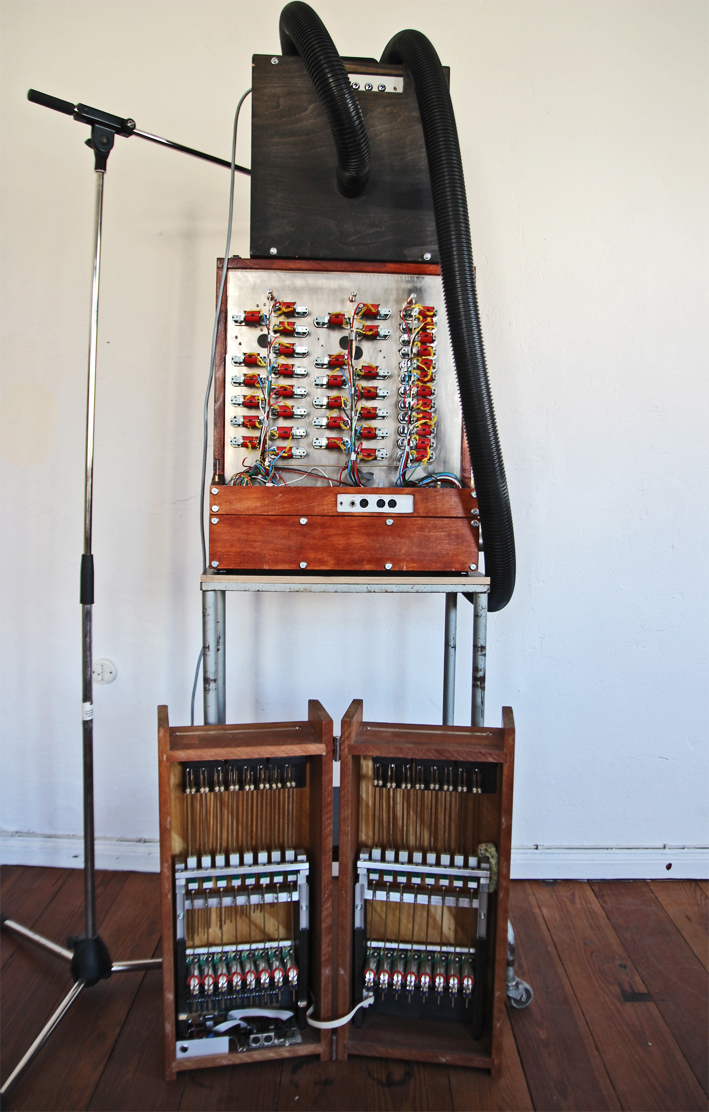 The Physharmonika is an electromechanical musical instrument resembling an accordion. It consists of a wind engine (top) and a carillon with 16 bells. The ensemble of both machines is played via an interface by computer software.